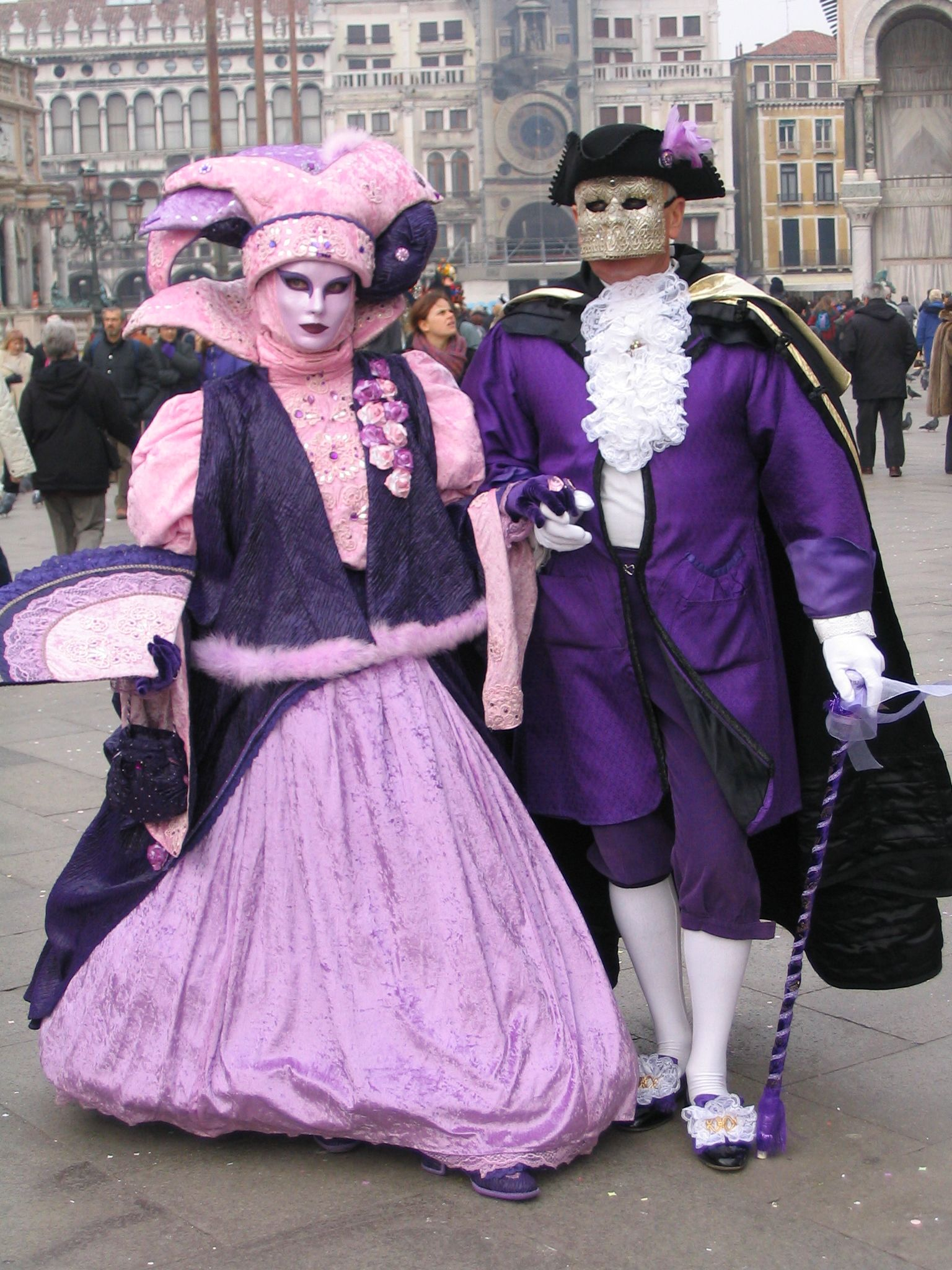 Batch Photo By wanblee =